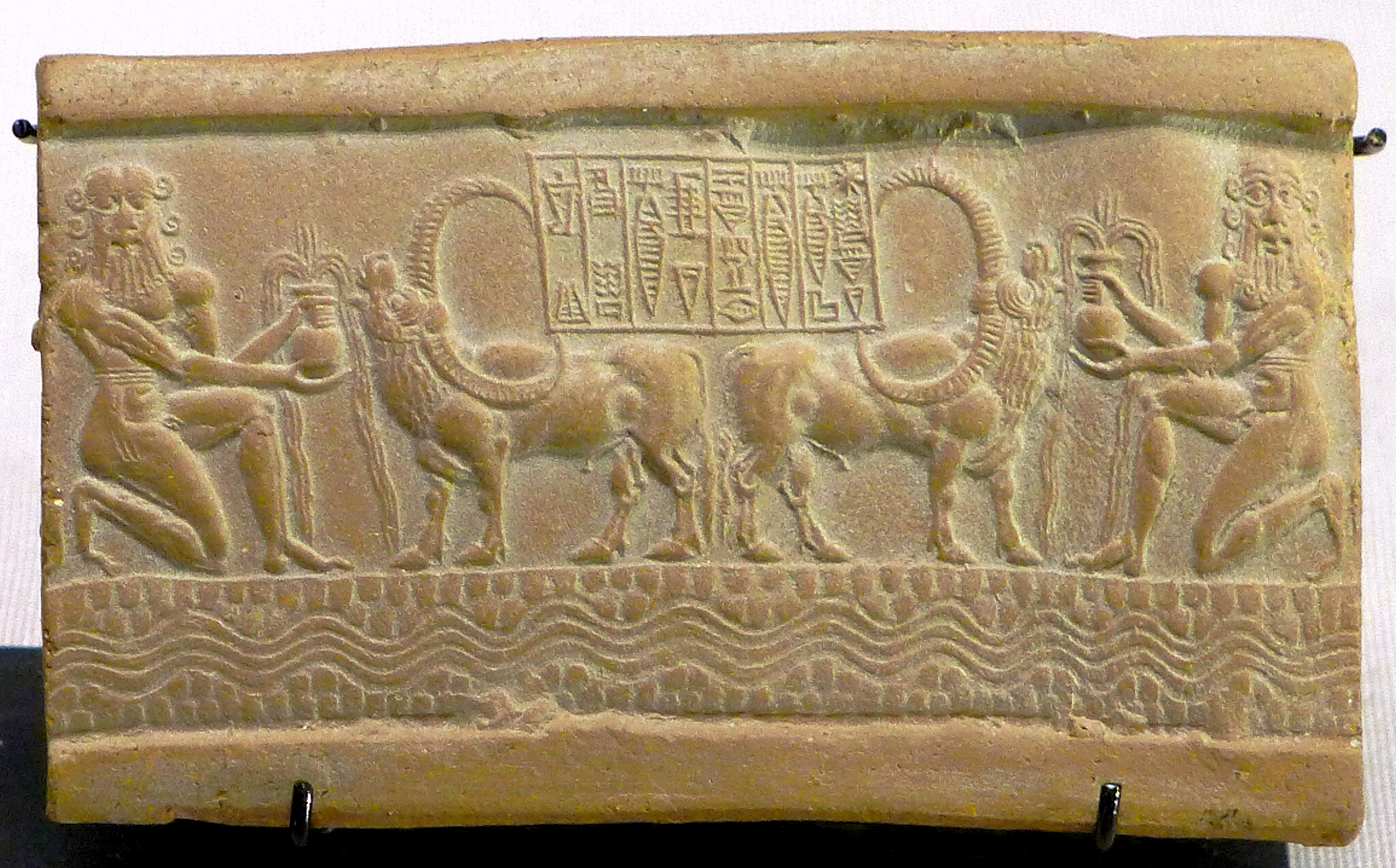 Impression of an Akkadian cylinder seal with inscription The Divine Sharkalisharri Prince of Akkad Ibni-Sharrum the Scribe his servant